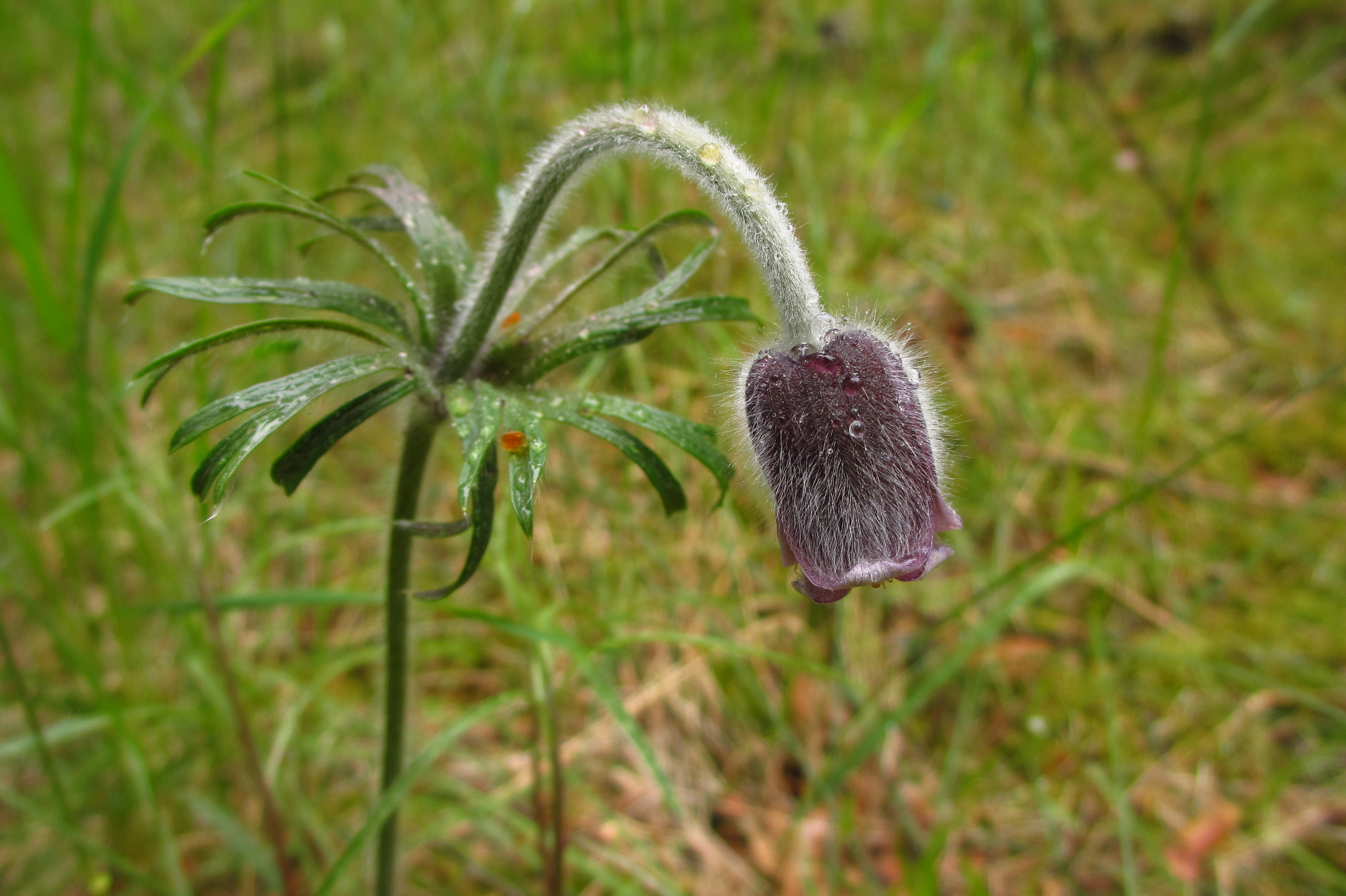 Pulsatilla pratensis